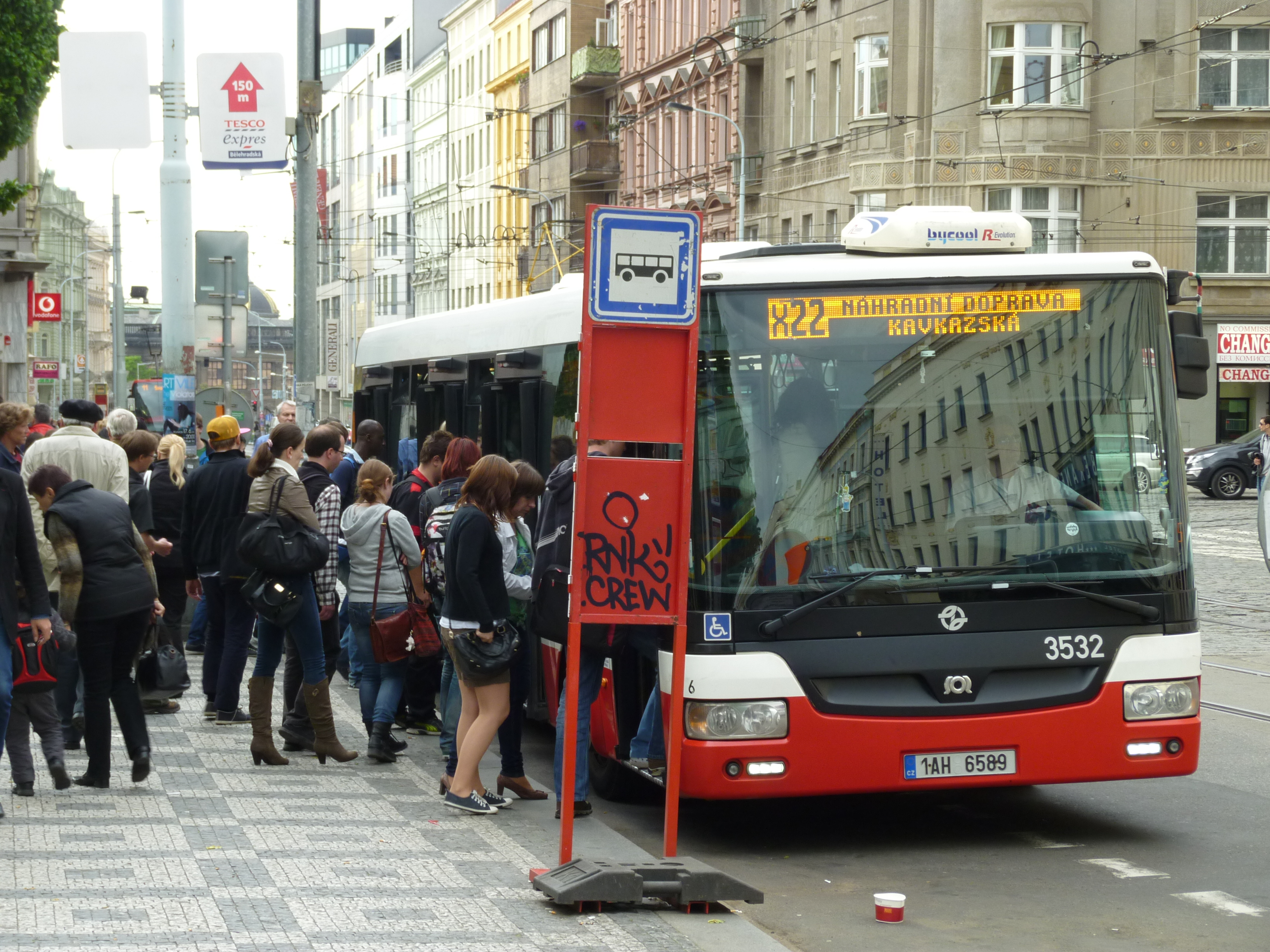 Organization of public transport during floods in June 2013, Prague, Czech Republic